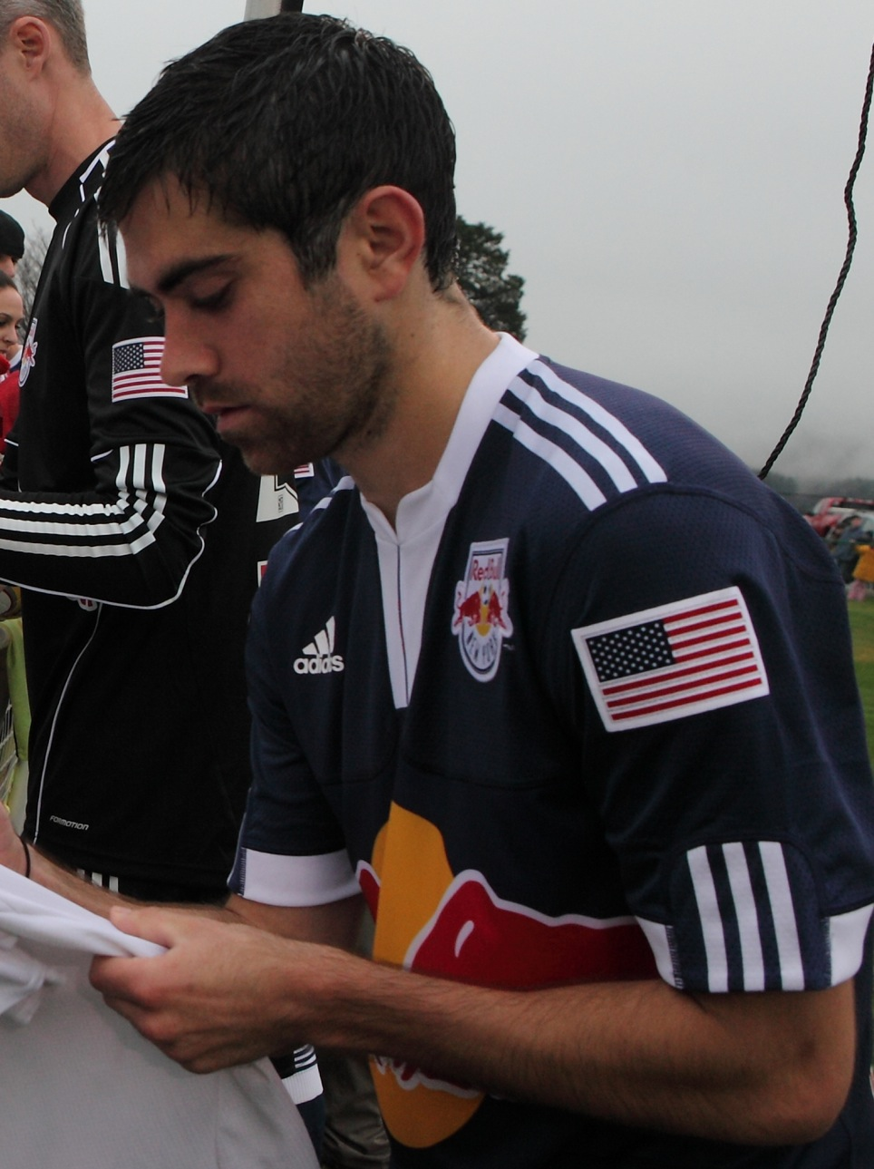 AUstin da Luz of Red Bull New York